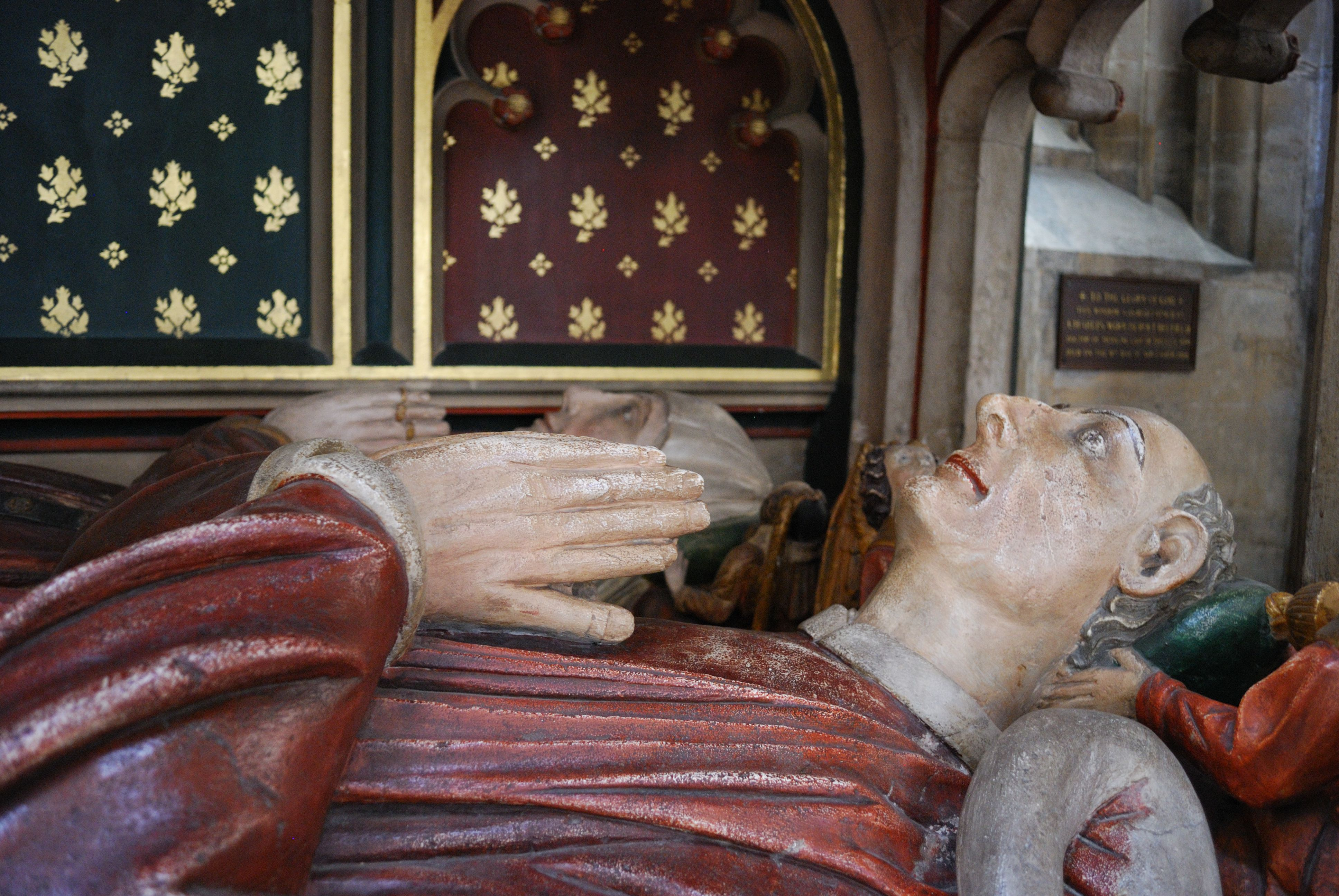 An effigy of William II Canynges (c. 1399–1474) in red velvet mayoral robes in his tomb in St Mary Redcliffe, Bristol, England, UK.